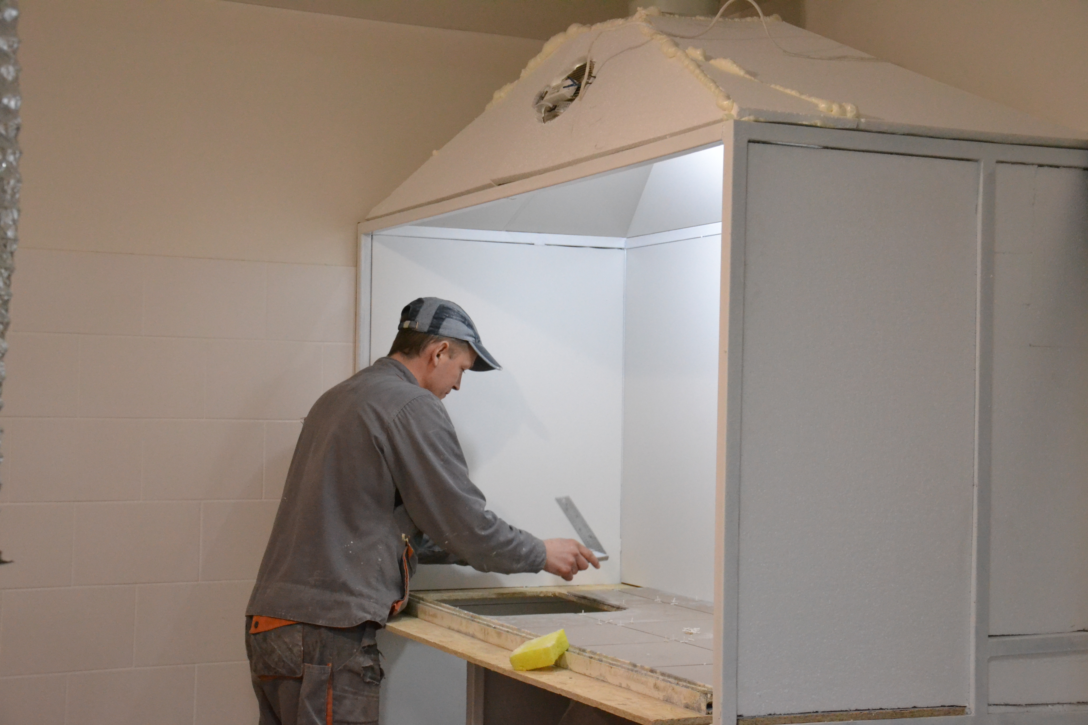 Fume hood manufacturing